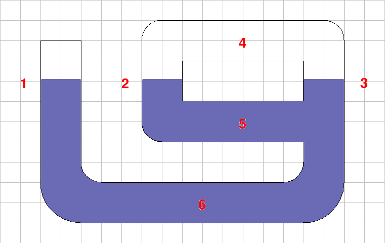 Liquid-feedback fluidyne engine concept. Blue - water, white - air. Description: 1 - water level in open tube, 2 - cold section, 3 - hot section, 4 - connecting tube and regenerator, 5 - displacer tube, 6 - tuning or output tube